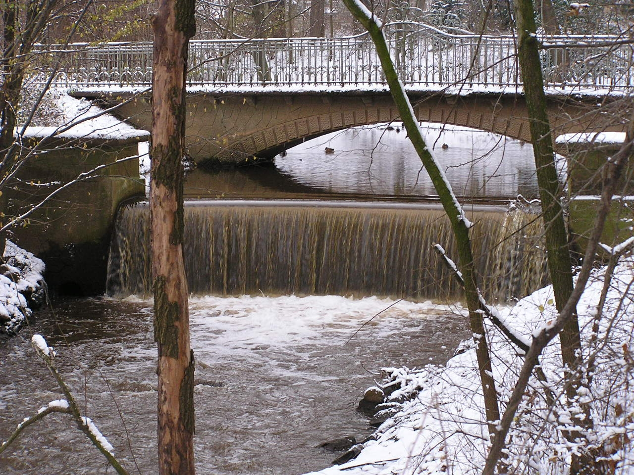 This image shows a heritage building in Germany, located in the North Rhine-Westphalian city Minden (no. 711).